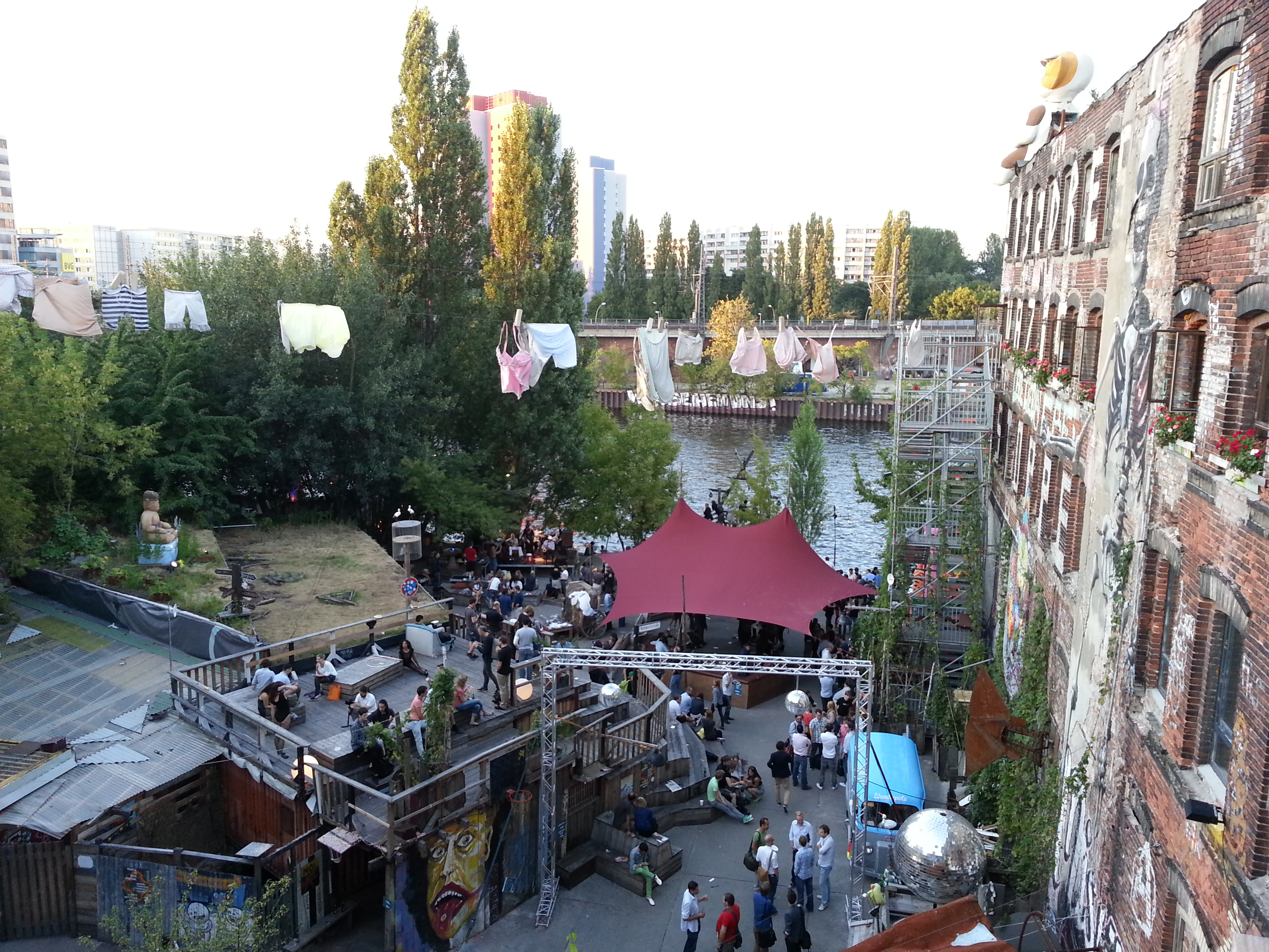 The former Kater Holzig nightclub in Berlin.